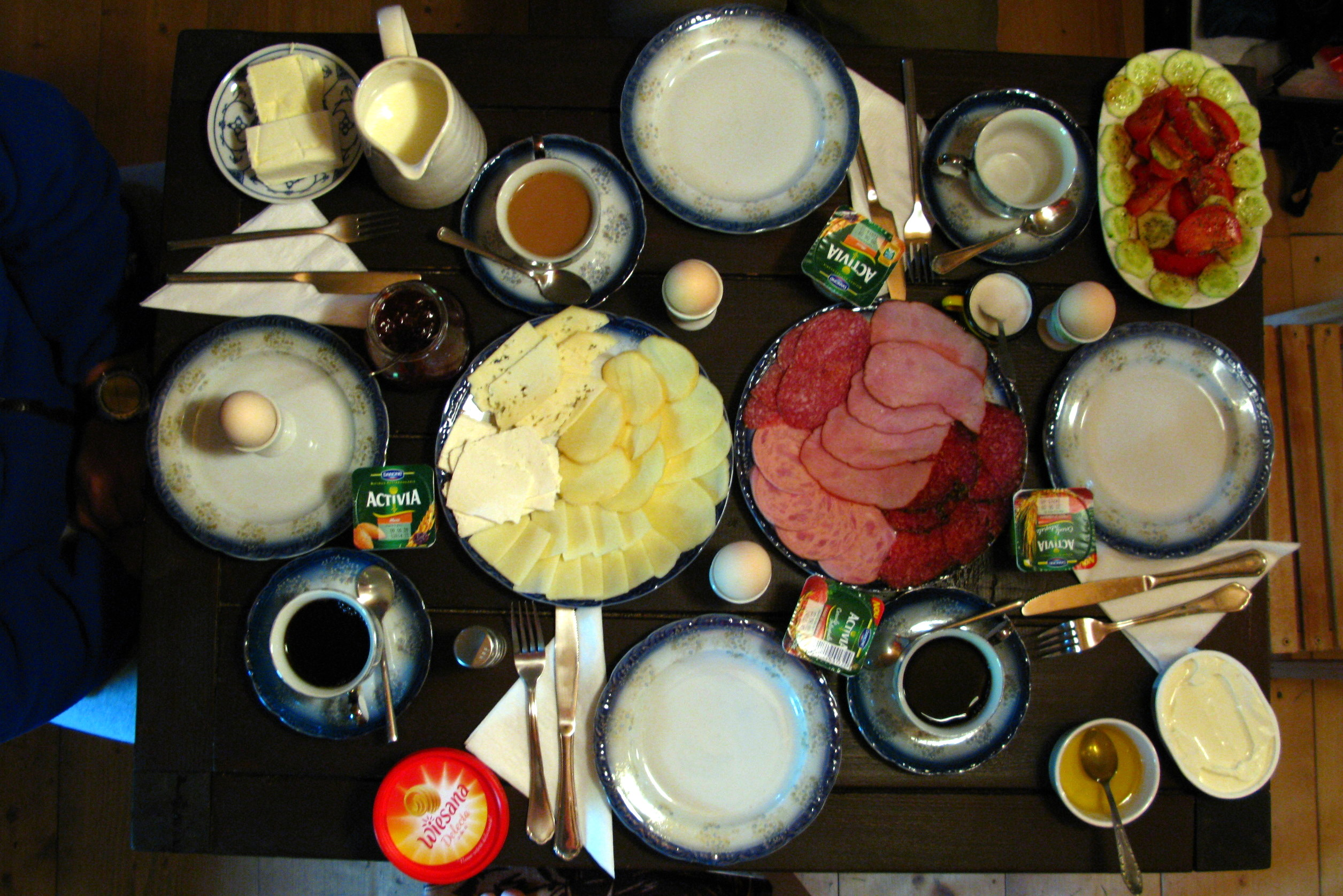 Breakfast for Tourists in Valea Vinului Maramureş Mountains (Inner Eastern Carpathians) in north of Rumania / EU.